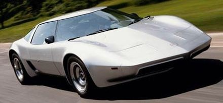 1977 Chevrolet Aero-Vette Concept